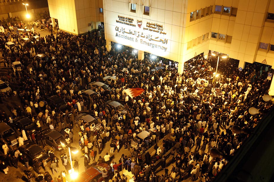 Protesters gathering in Salmaniya Medical Complex parks